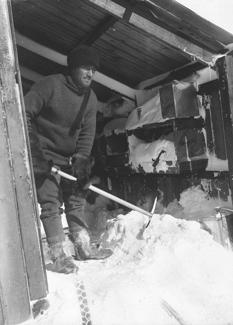 Mertz clears snow from the verandah, Winter Quarters, Adelie Land